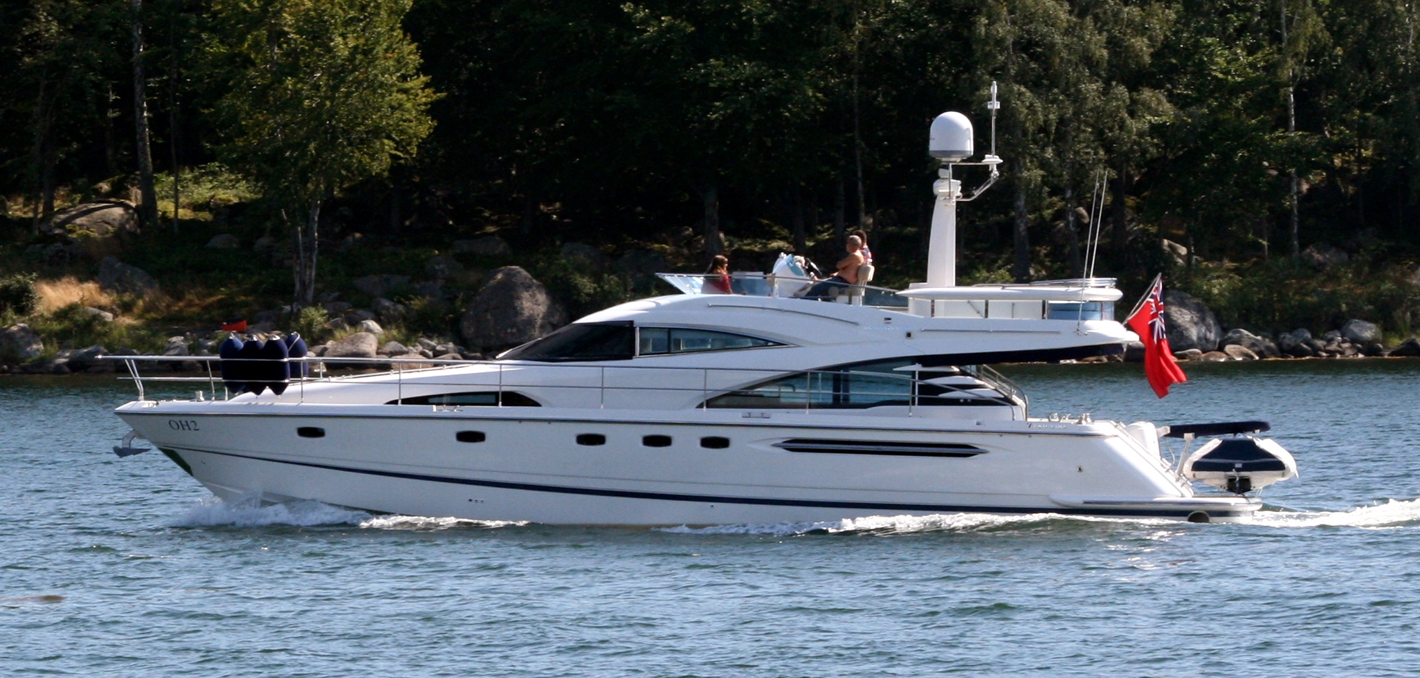 A Fairline Squadron, probably a 58 from the 2000s